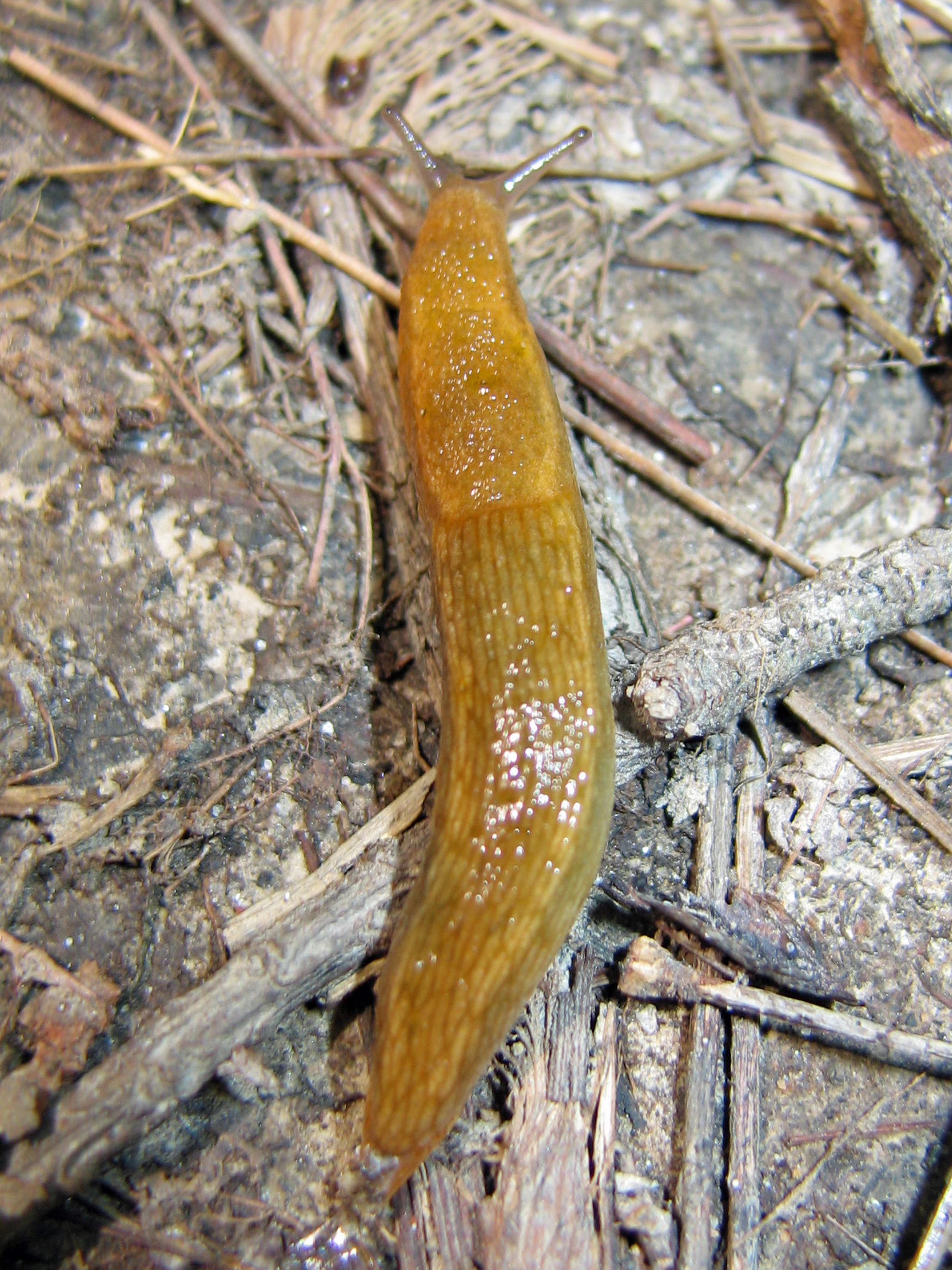 Brown Slug